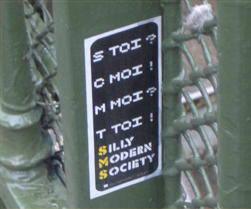 I took this photo in March 2004 in Paris, France.